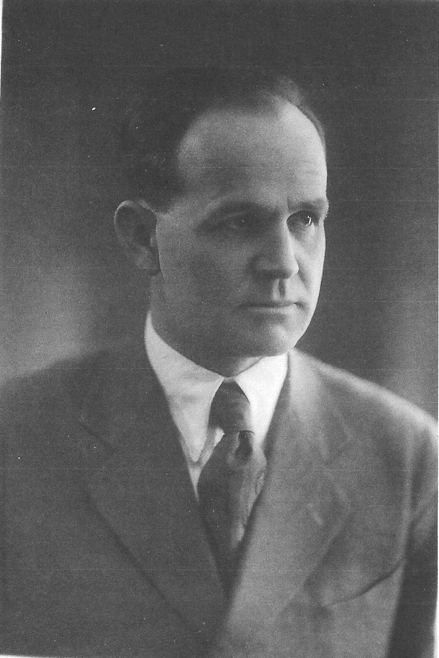 H.L. Sone about 1937